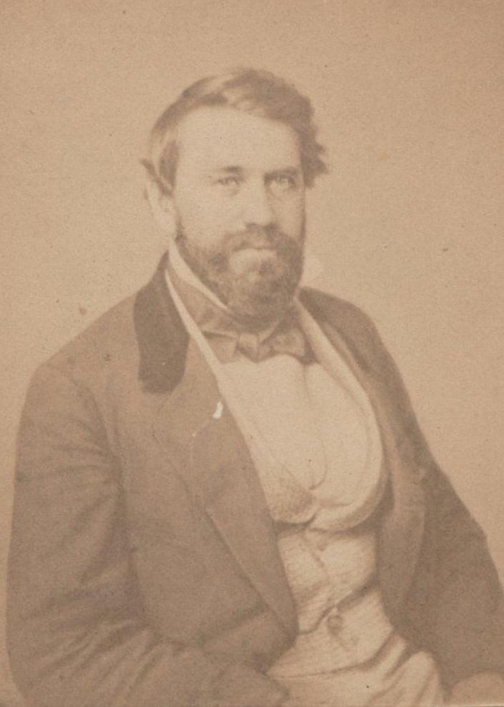 Carte-de-Visite of a half portrait of Louis Trezevant Wigfall. Inscription on back: Wigfall. From the Collections of the Confederate Memorial Literary Society